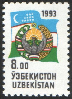 Stamp of Uzbekistan 1993. Author - Post of Uzbekistan.